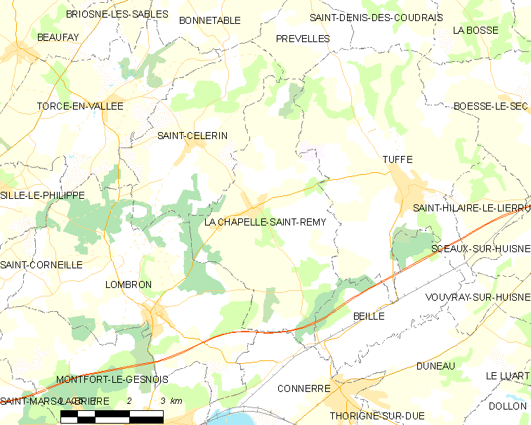 Map of French municipality